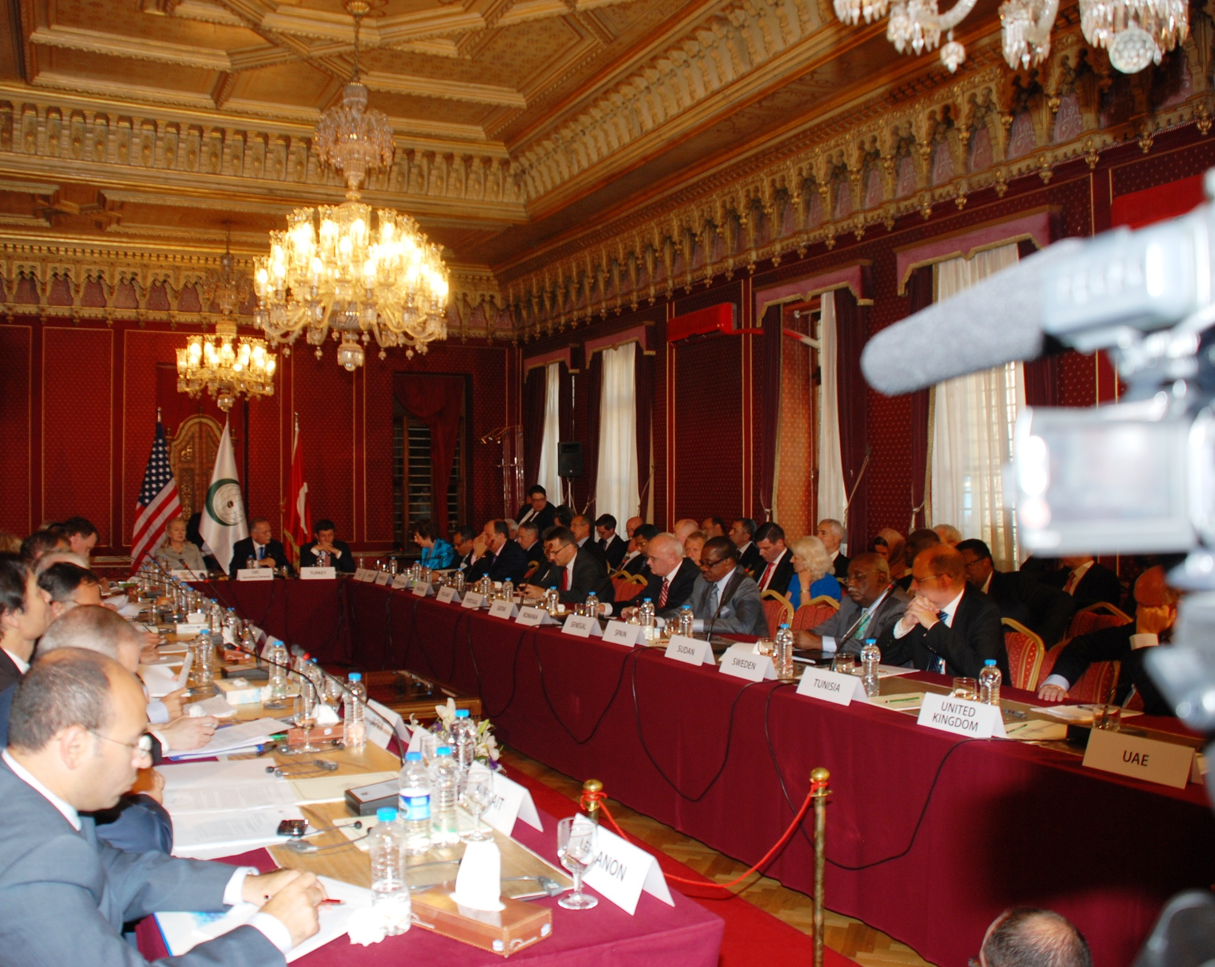 U.S. Secretary of State Hillary Rodham Clinton participates in the Organization of Islamic Cooperation (OIC) Conference on “Building on the Consensus” at the Research Center for Islamic History, Art and Culture (IRCICA) in Istanbul, Turkey, on July 15, 2011. [State Department photo/ Public Domain]